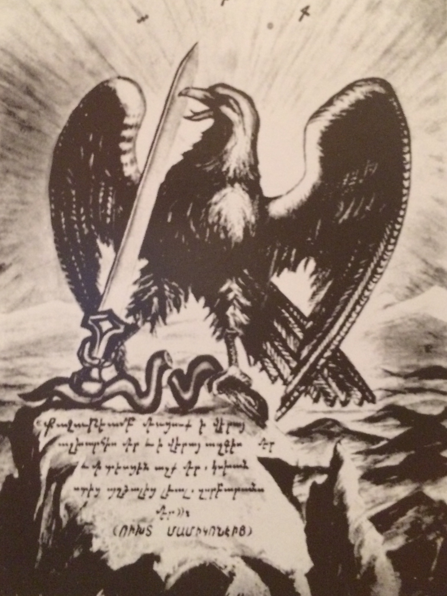 The Coat of Arms of Tseghakron movement. Created in 1933 by Garegin Nzhdeh and Hayk Asatryan.